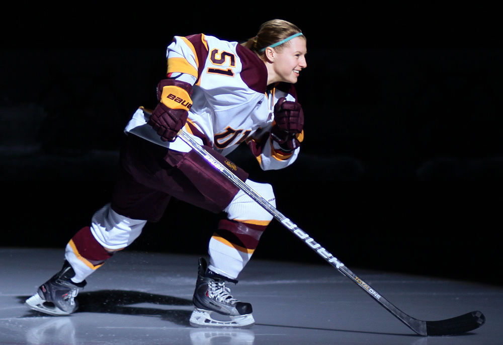 University of Minnesota-Duluth forward Pernilla Winberg